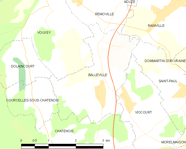 Map of French municipality Balléville